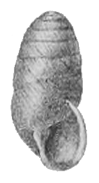 Drawing of apertural view of a shell of Edentulina moreleti